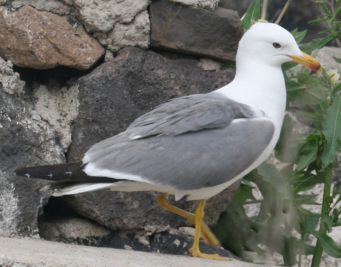 Armenian Gull near Sevanavank, side view